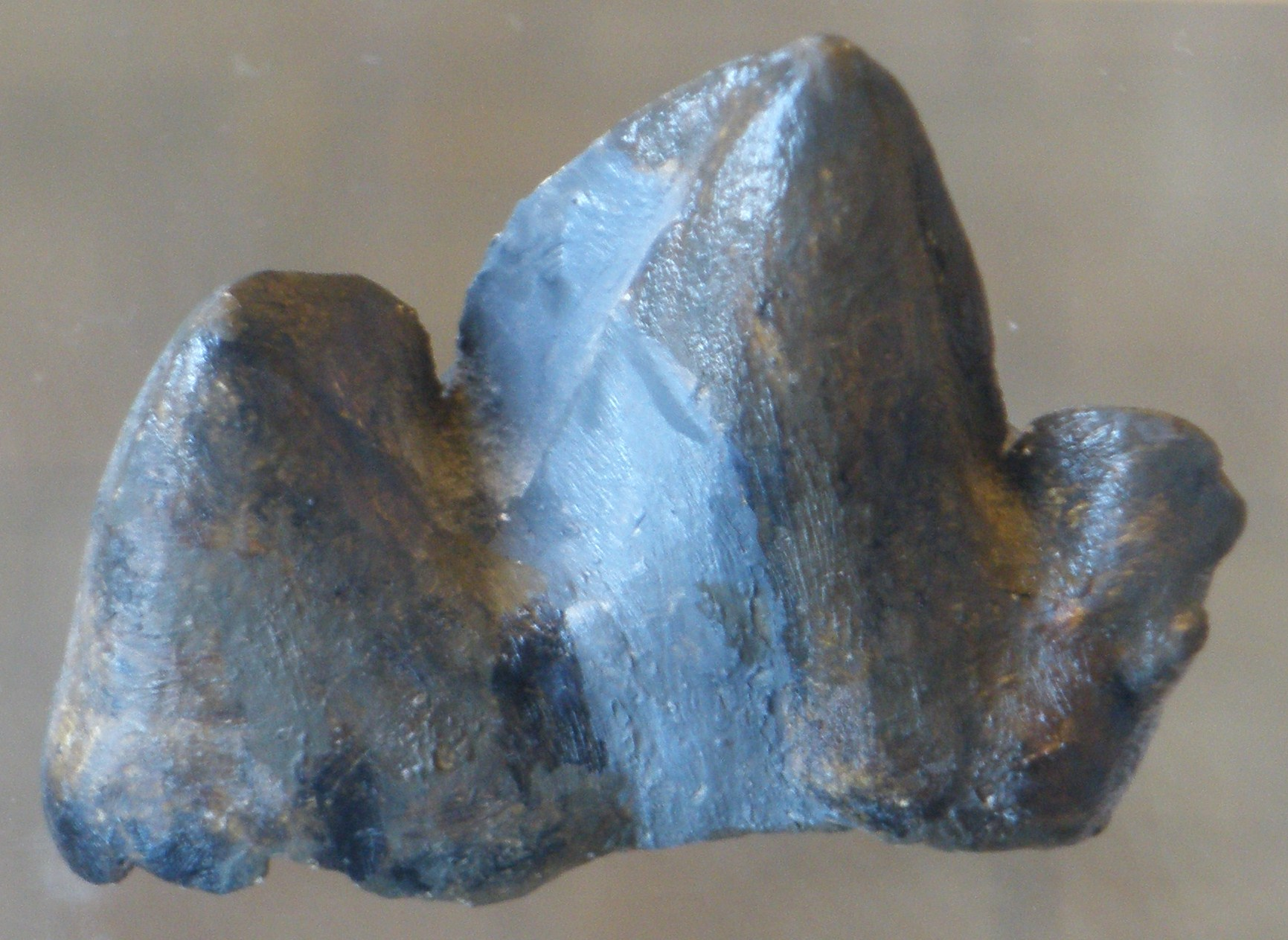 fossil Hyaenaelurus (=Hyainailouros)